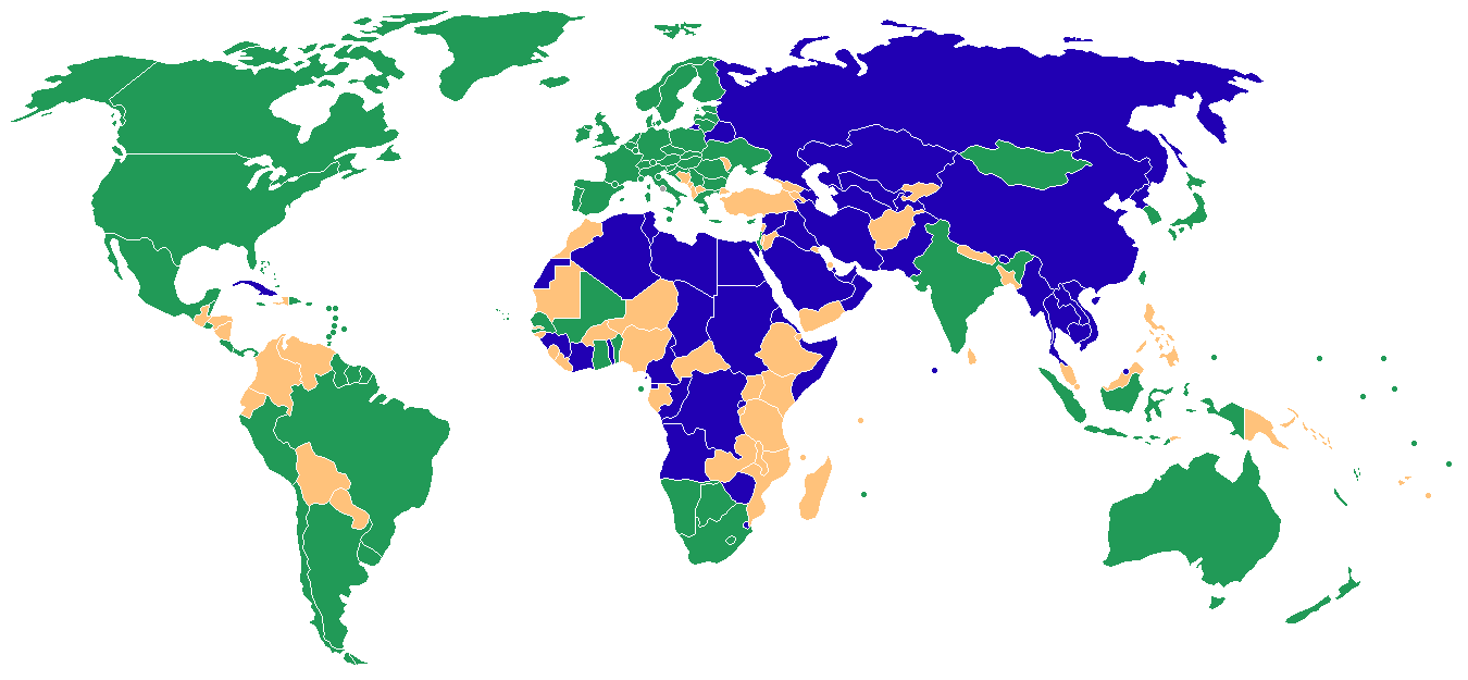 The map reflects the findings of Freedom House's survey Freedom in the World 2007. For each country, the survey provides a concise report on political and human rights developments, along with ratings of political rights and civil liberties. Based on these ratings, countries are divided into three categories: Free (green), Partly Free (orange), and Not Free (blue), as reflected in the map. Map based on BlankMap-World-v5.